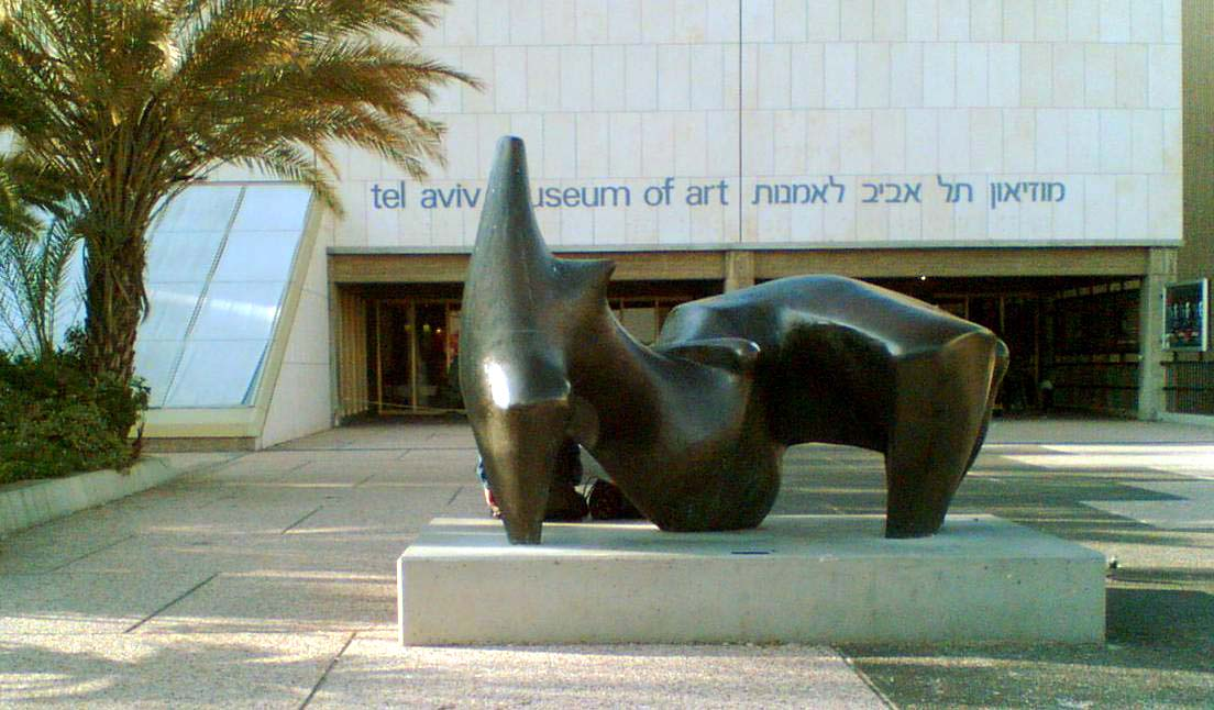 A sculpture by Henry Moore, in front of Tel Aviv Museum of Art.